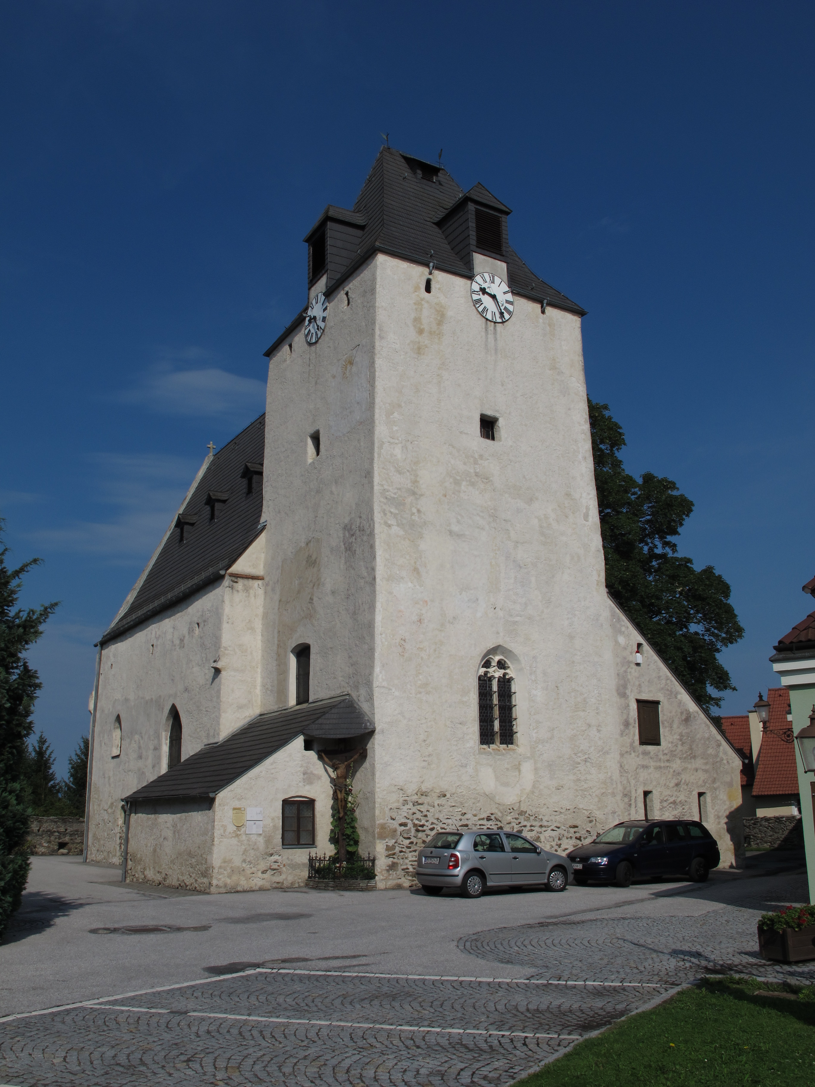 Saint James the Greater parish church in Lichtenegg, Lower Austria